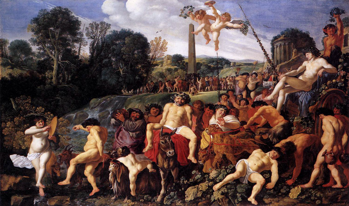 Bacchanal